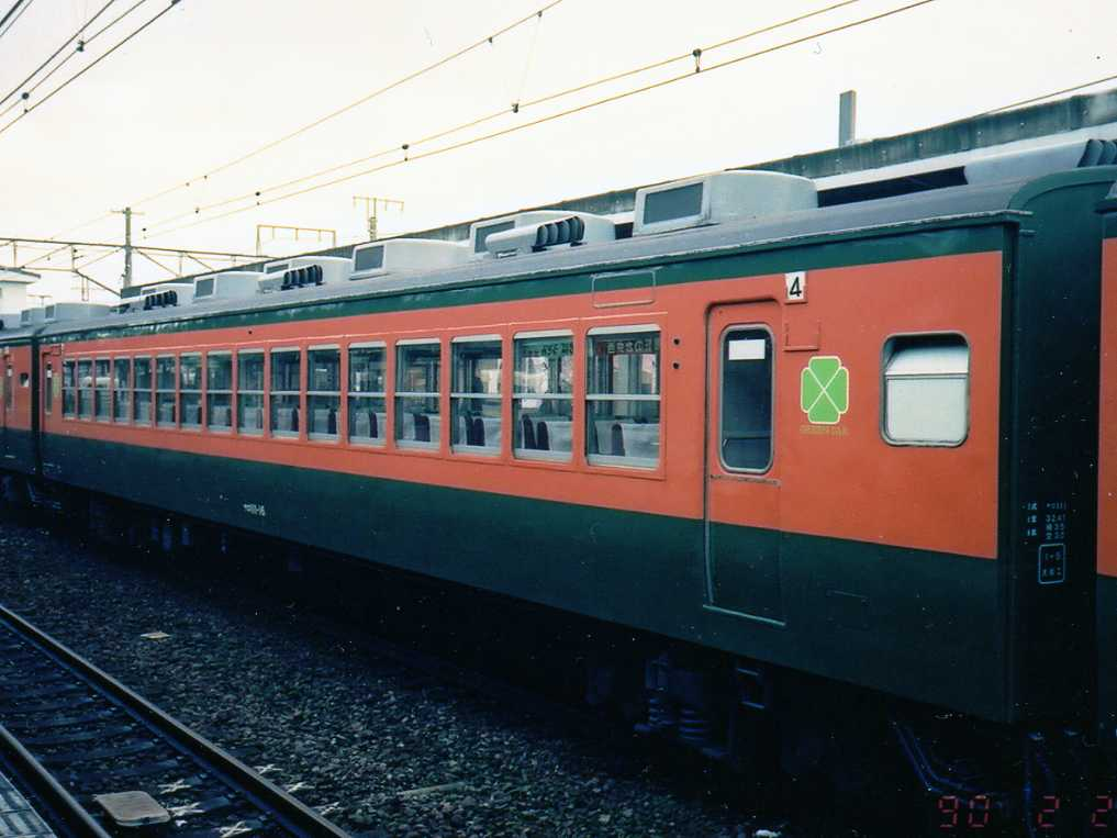 East Japan Railway Company, EMU Type 111 Green Car (First Class Car) Saro111-16 Tokaido Line at Odawara Sta.